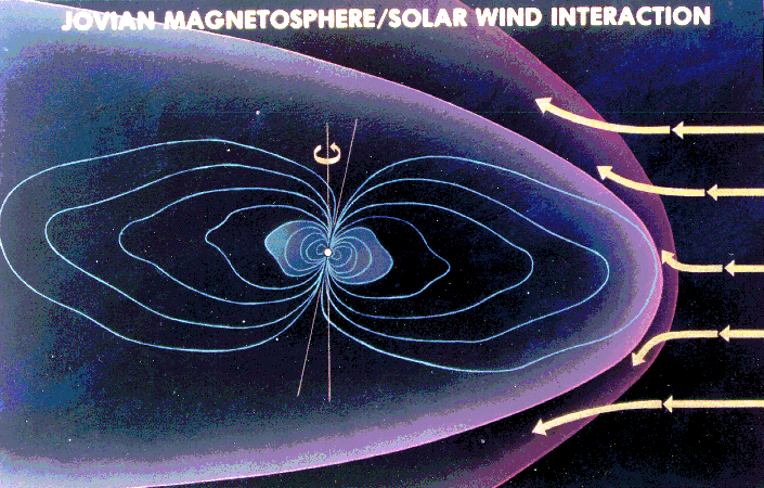 Interactions between solar wind and jovian magnetosphere